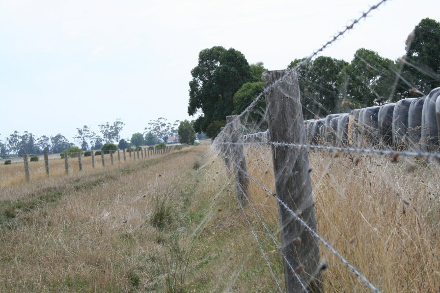 A large communal web of Austracantha minax, or Jewel Spider. Image taken in rural Victoria around March.